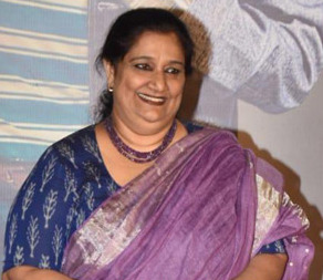 Actress Seema Pahwa at the special screening of Kaamyaab